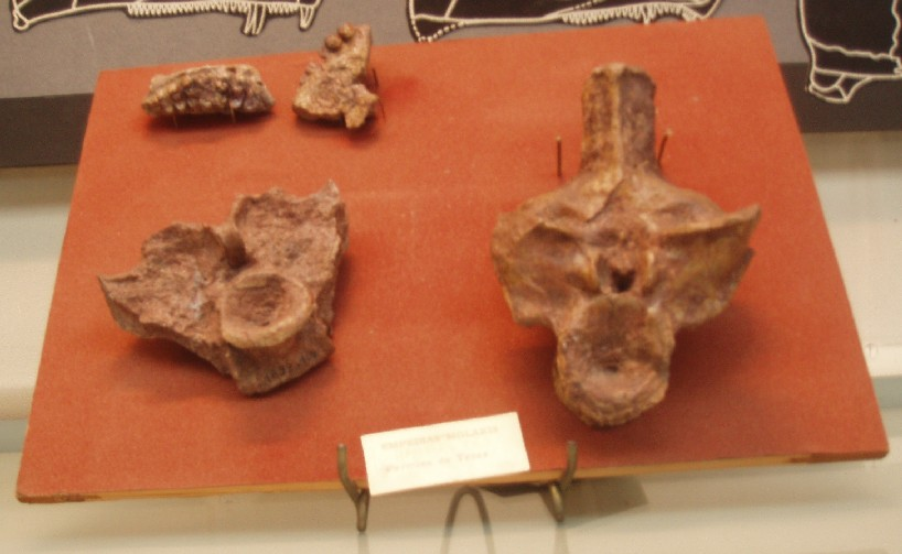 Bones of the reptiliomorph Empedias (=Diadectes?) molaris.